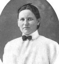 A white woman wearing a white shirt and a small bowtie. Her hair is smoothed back and close to her head.